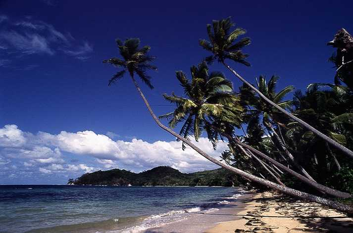 A beach of Kadavu (Kandavu) Island, Fiji